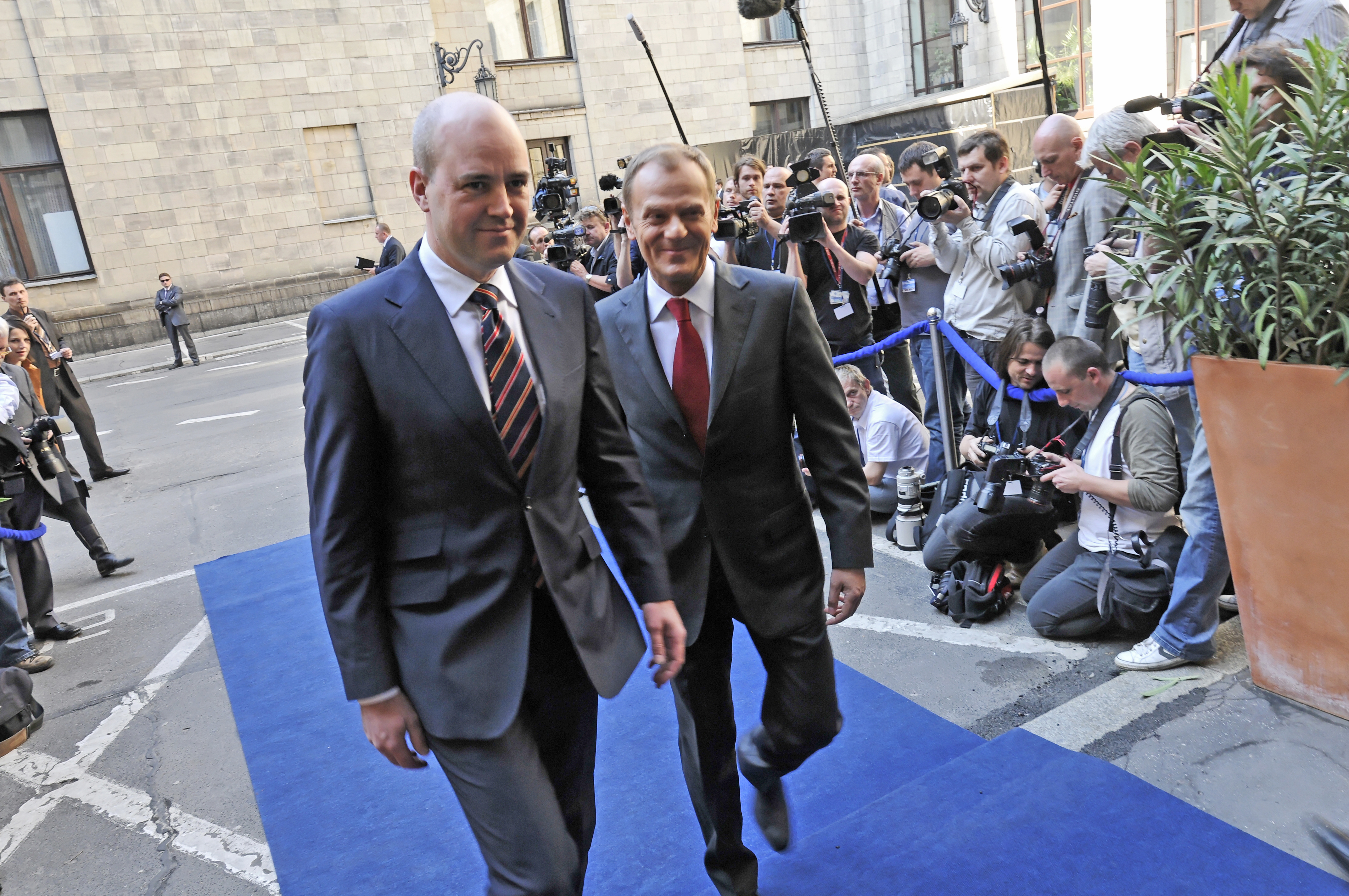 EPP Congress in Warsaw